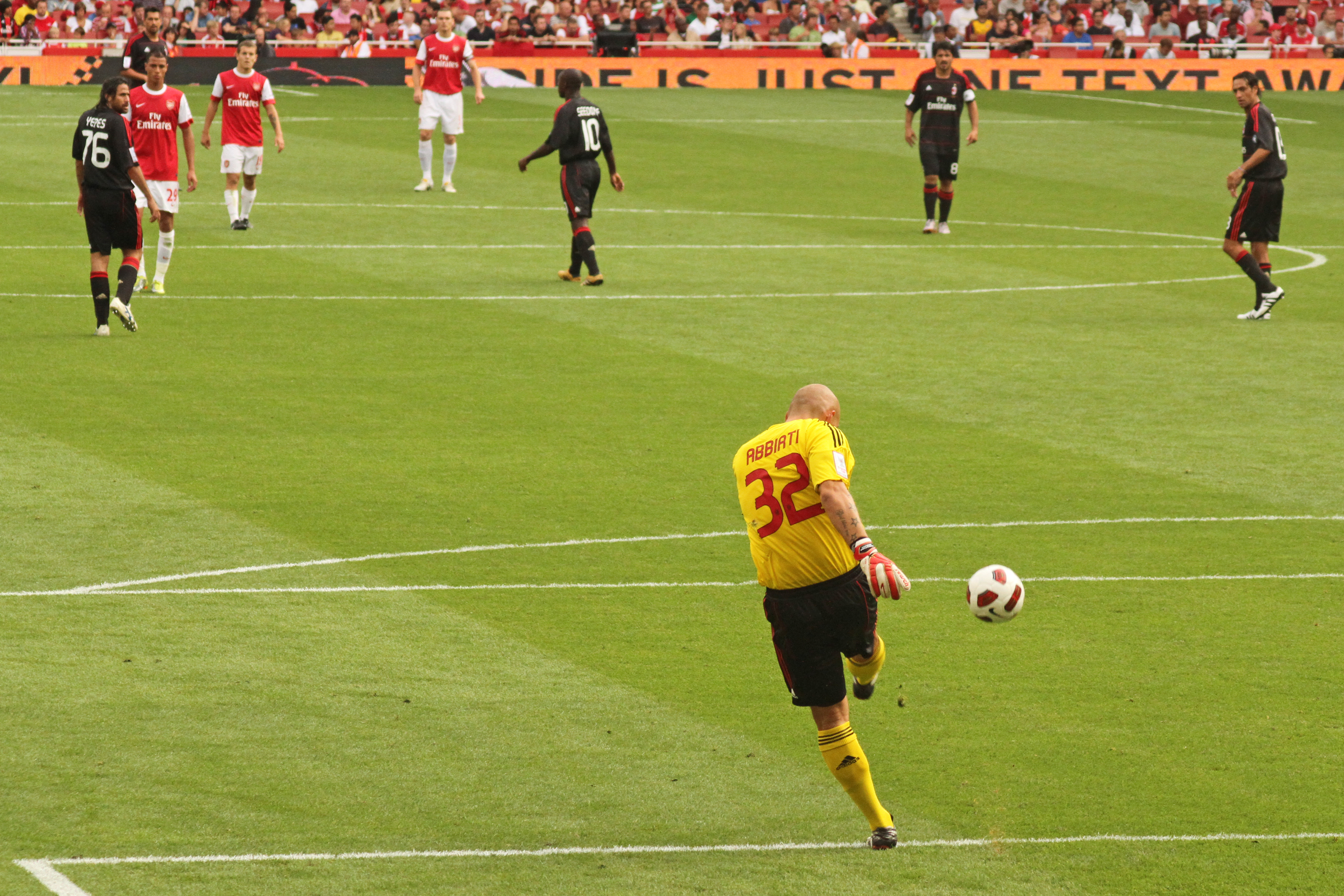 Christian Abbiati during Emirates Cup 2010